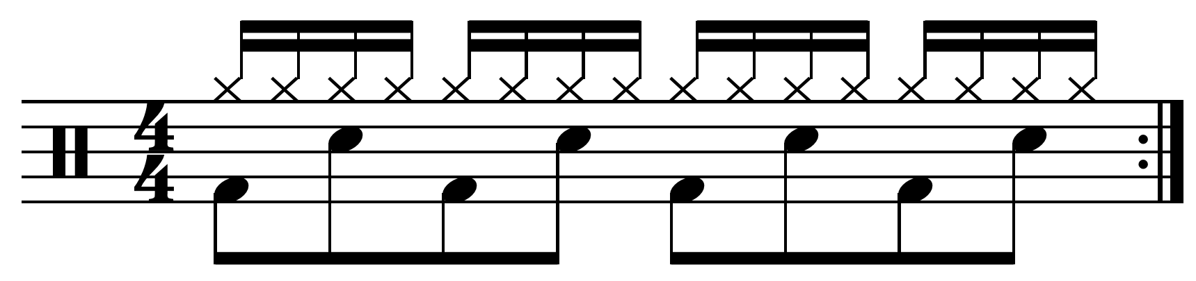 Double-time: notice the snare moves to the "&" beats (compared to "regular" time) while the hi-hat begins to subdivide sixteenth notes.